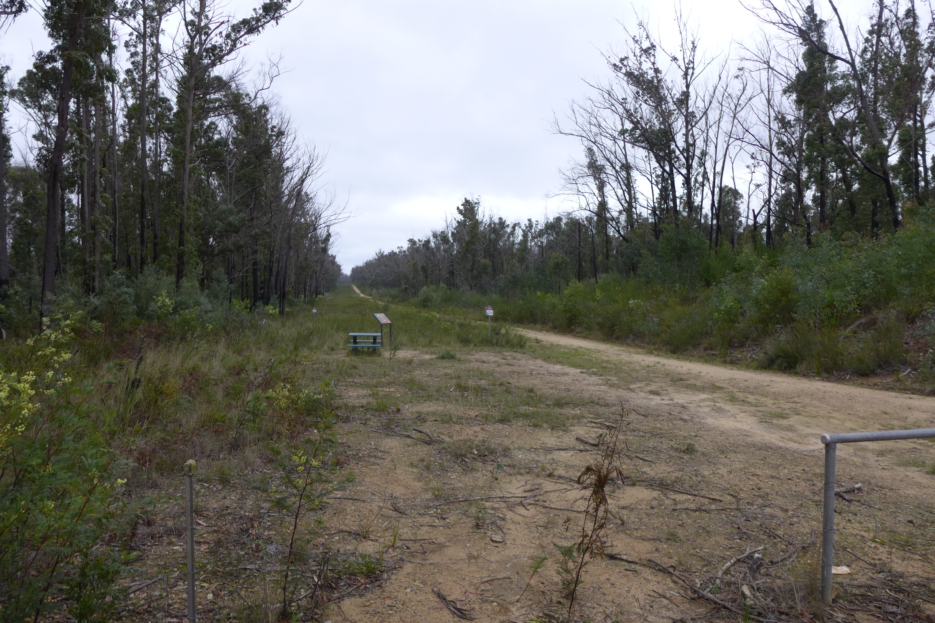 East Gippsland Rail Trail, at a rest stop between Orbost and Nowa Nowa.